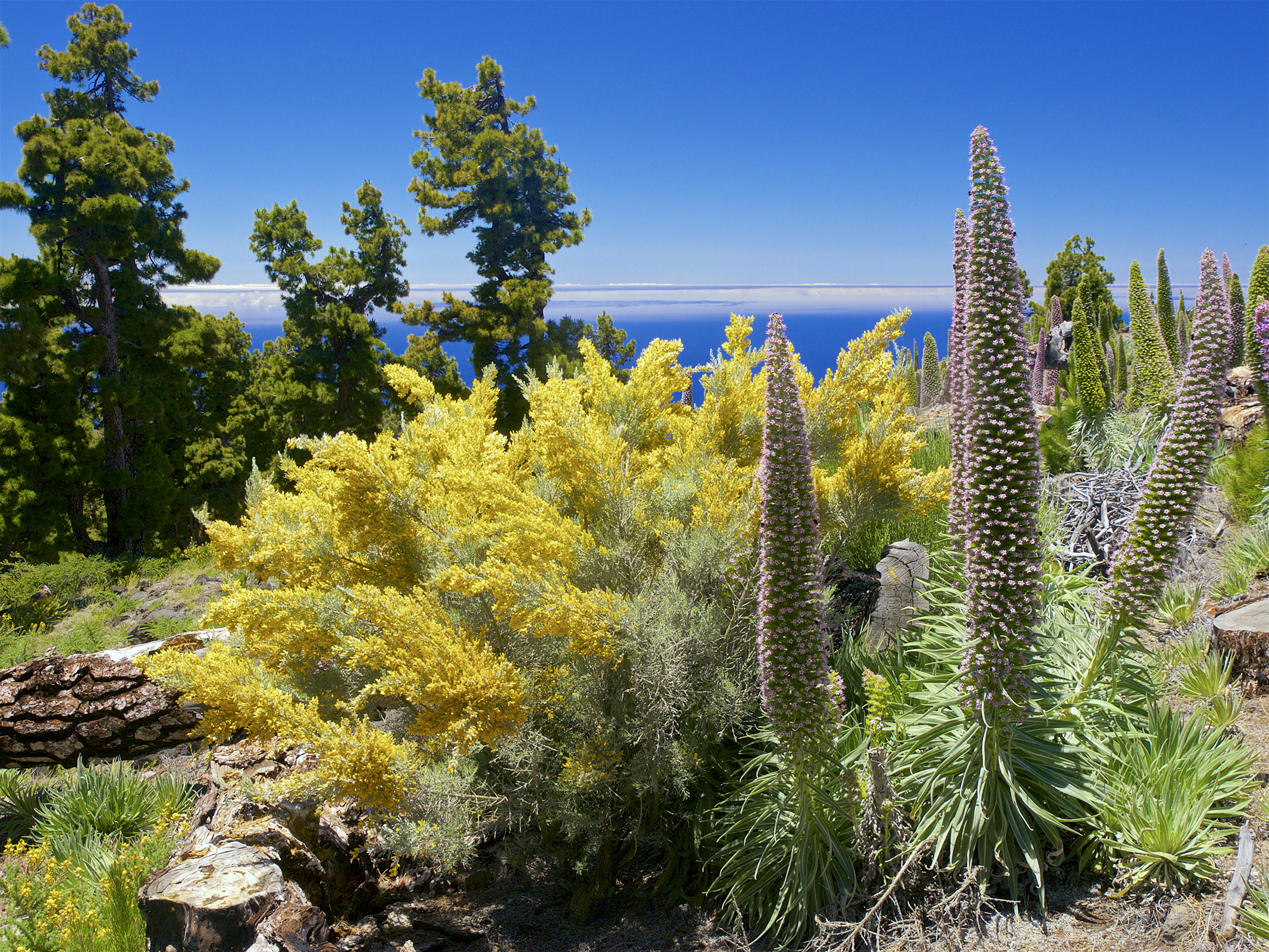 Genista benehoavensis together Red Bugloss (Echium wildpretii ssp. trichosiphon) on La Palma, Canary Islands, Spain